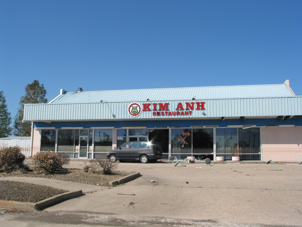 Bullard Avenue, Eastern New Orleans; Kim Anh Restaurant after the Hurricane Katrina levee failure disaster.